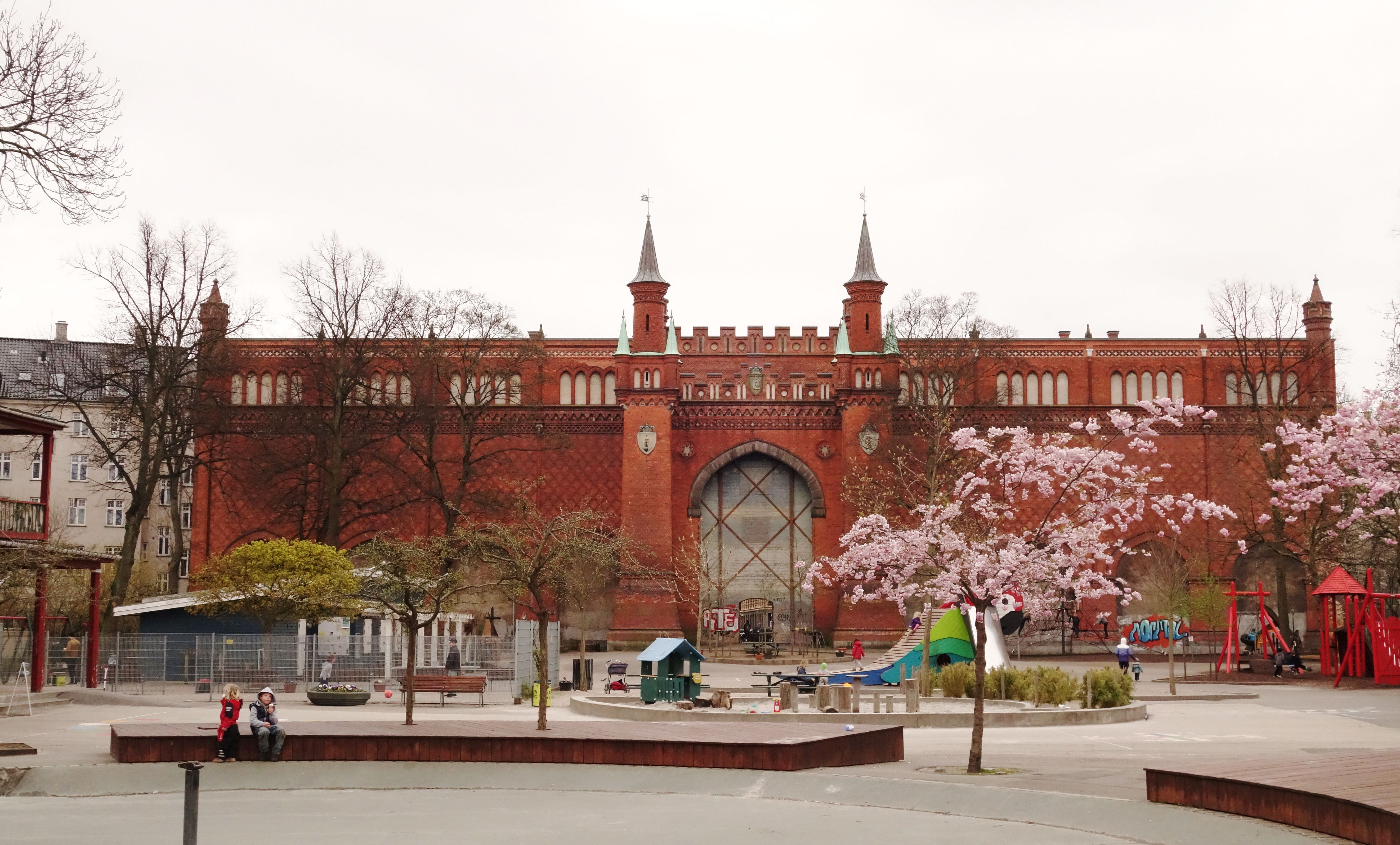 Shooting gallery wall - Ludvig Knudsen -1888 - Historicism, Neo-Gothic